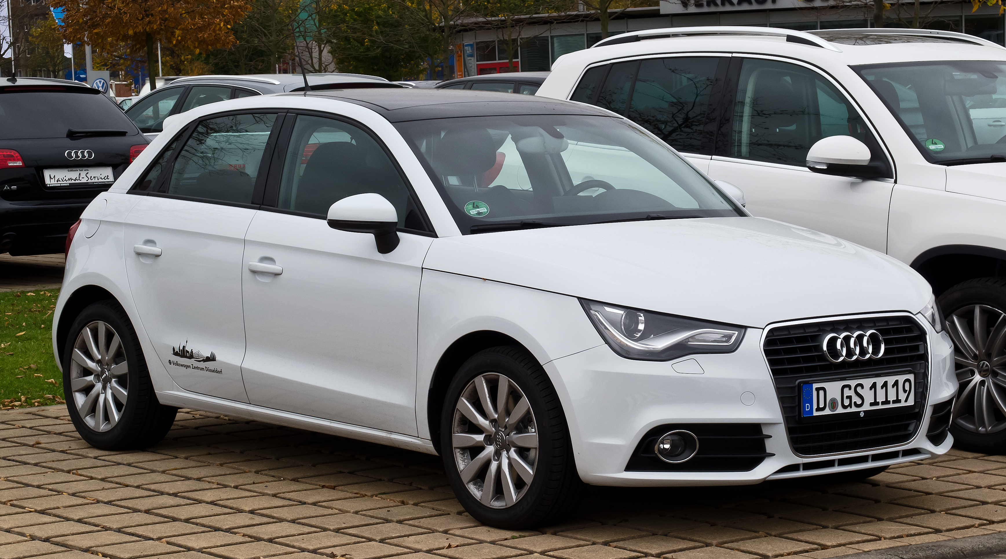 Audi A1 Sportback 1.4 TFSI Attraction